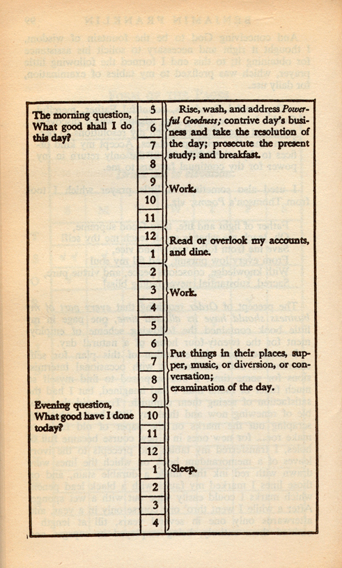 A photo of Benjamin Franklin's daily schedule